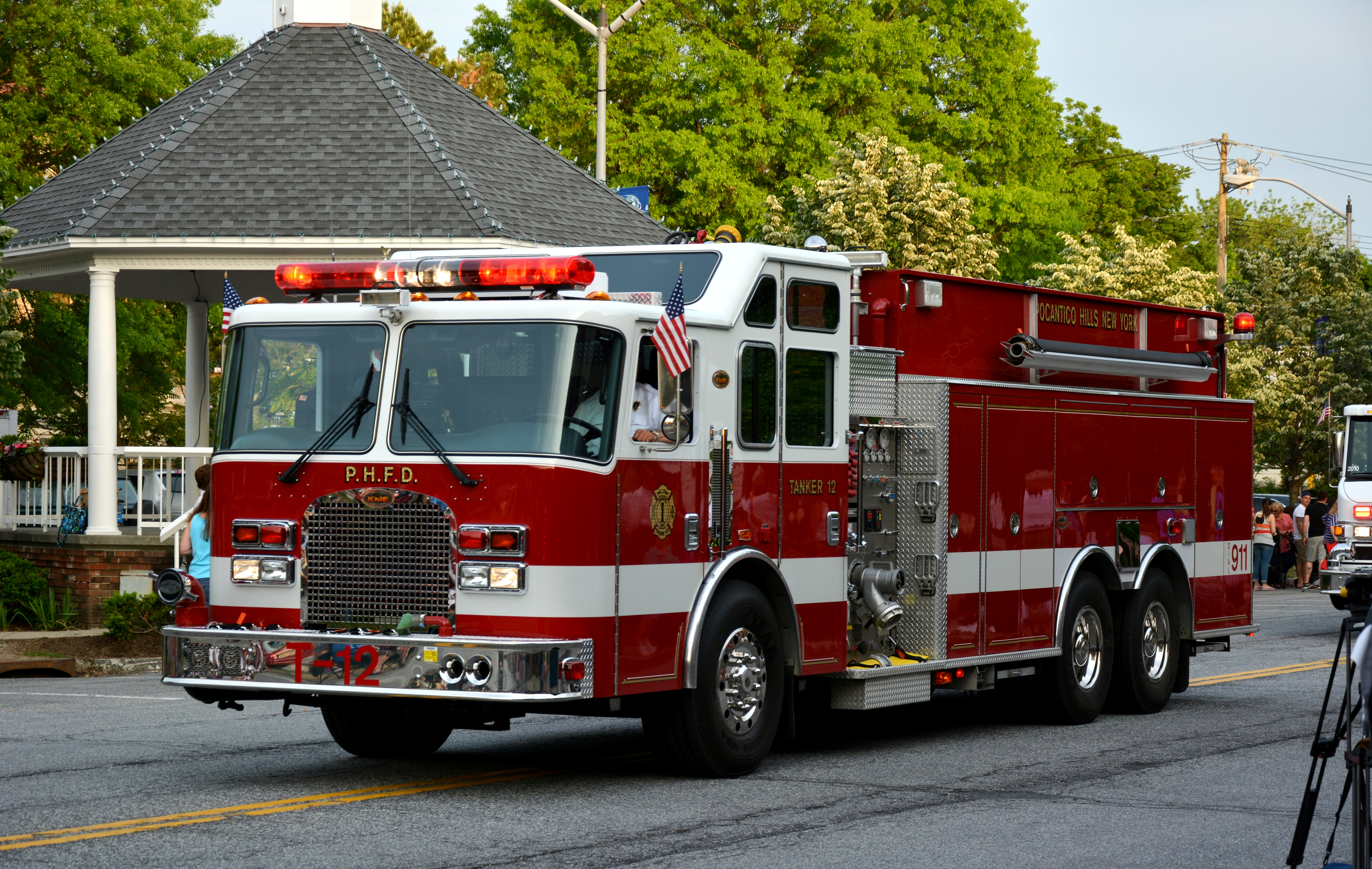 Pocantico NY fire vehicle. I took this at the Pleasantville Firefighters' Parade on May 29, 2015.